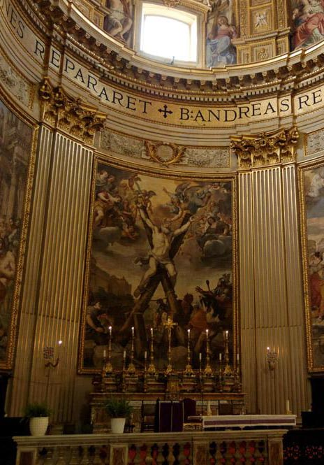 Pintura de S. Andrés, en San Andres del Valle, Roma.